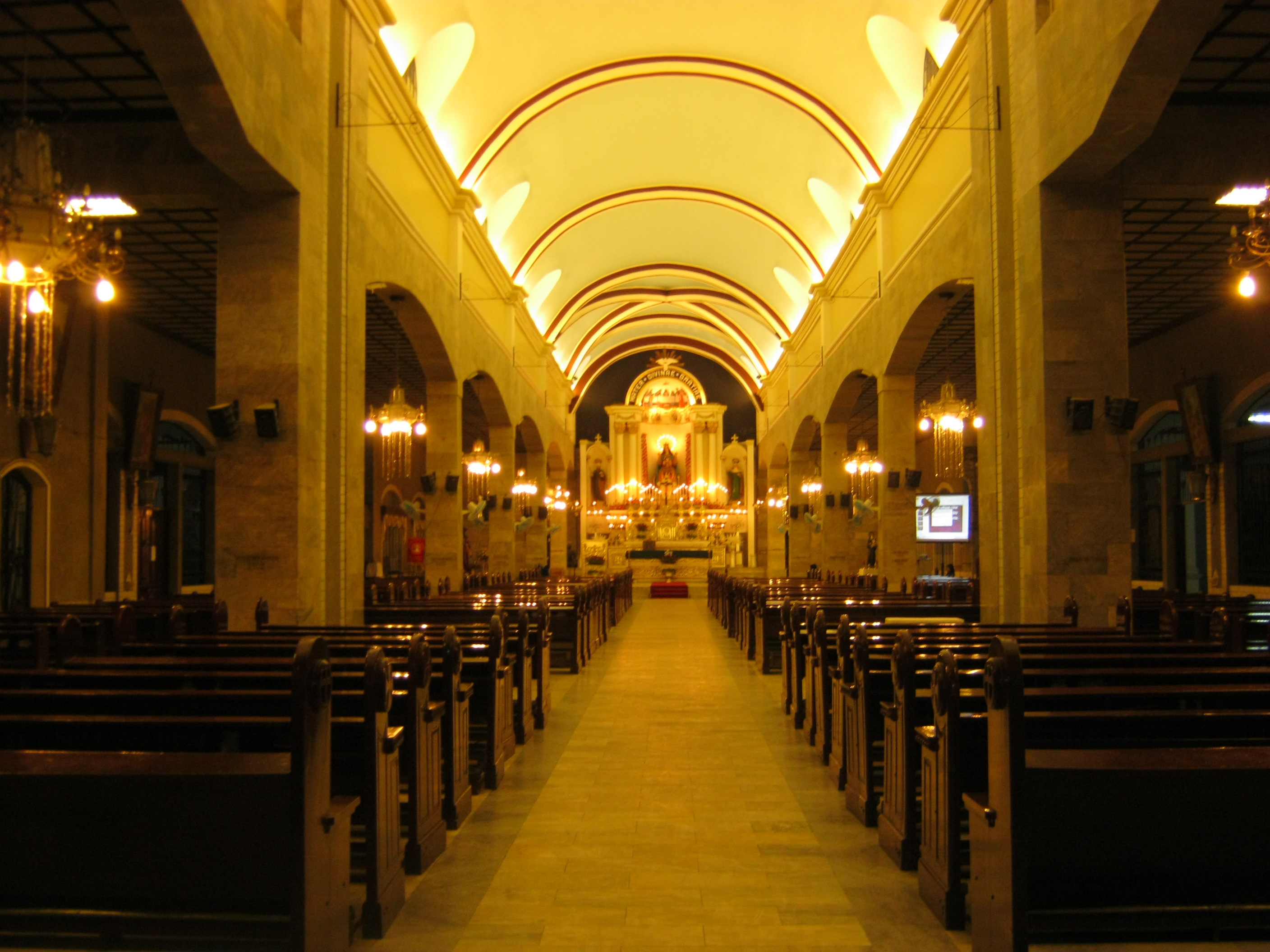 Interior of Our Lady of Grace Parish Church, Mabalacat City, Pampanga